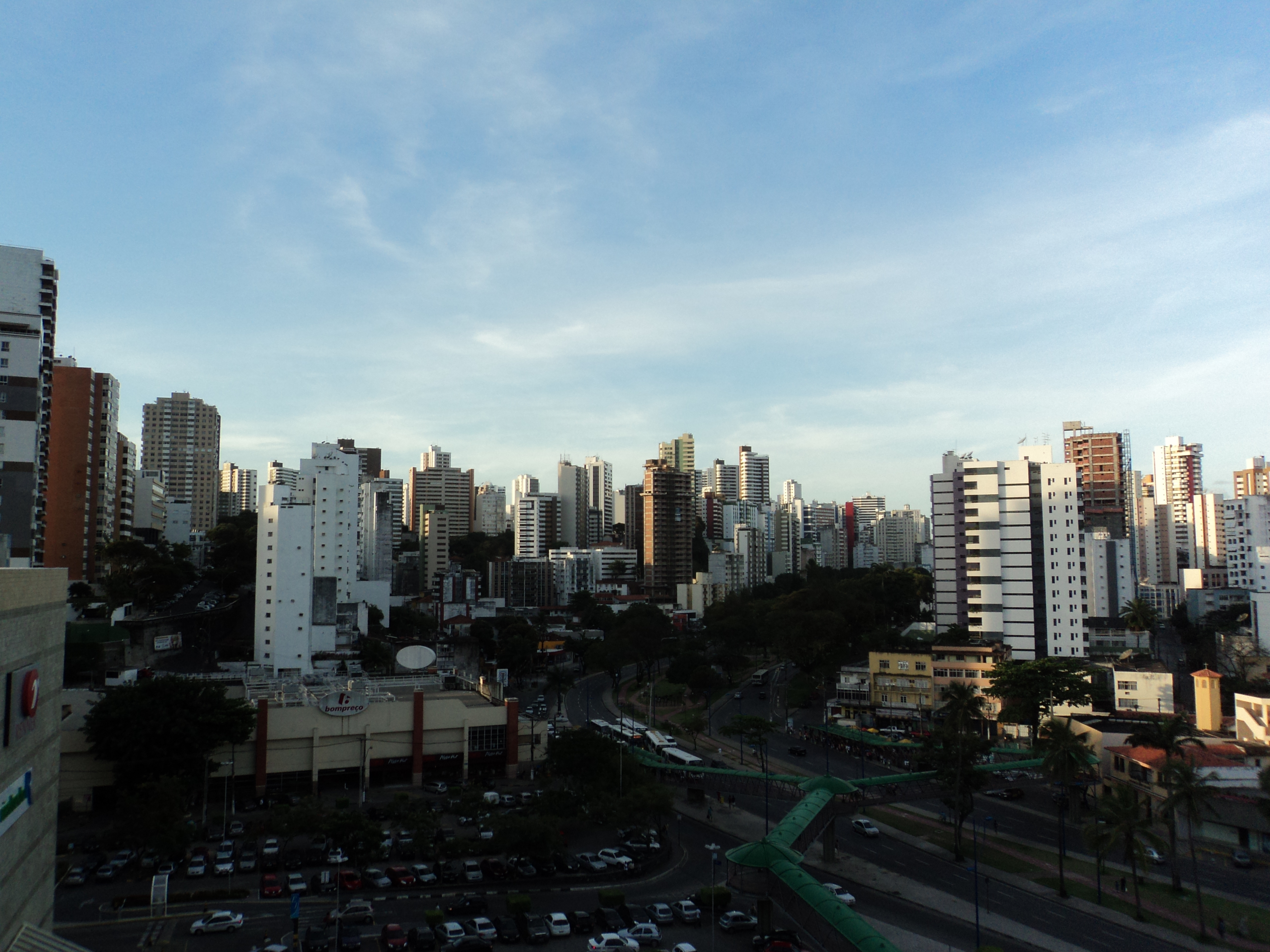 The districts of Barra and Graça. Salvador, Brazil.